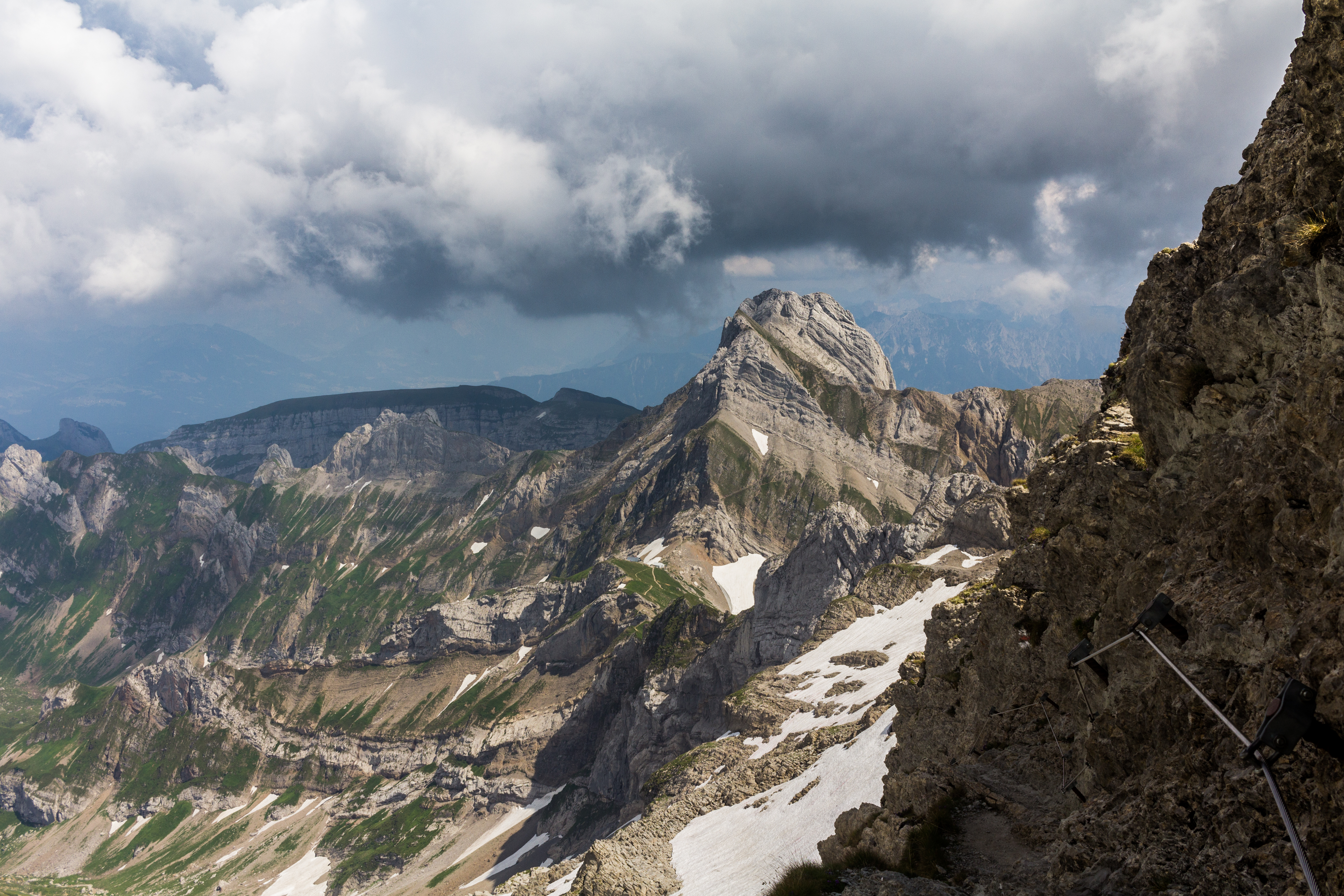 NW View on the Altmann from the Lisengrat / Chalbersäntis.